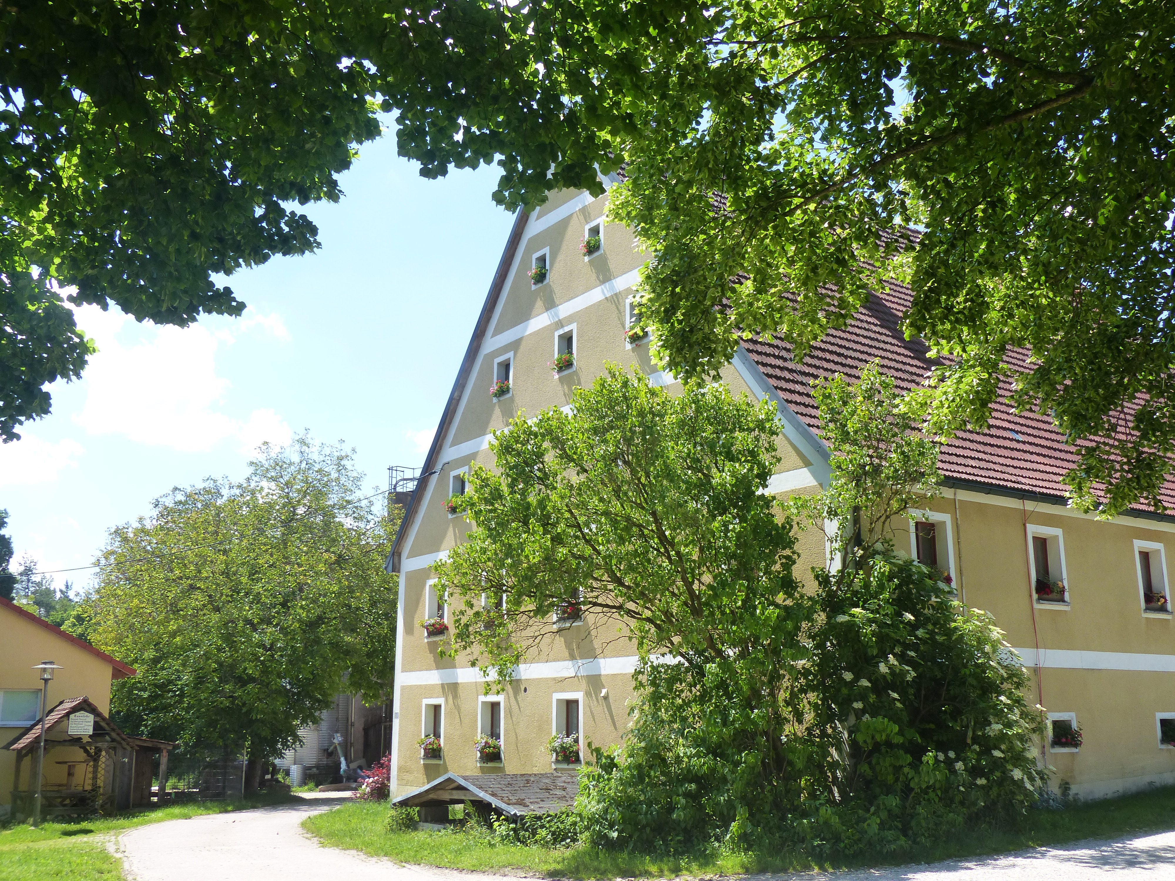 The solitude Tannlohe, a district of the municipality of Birgland.